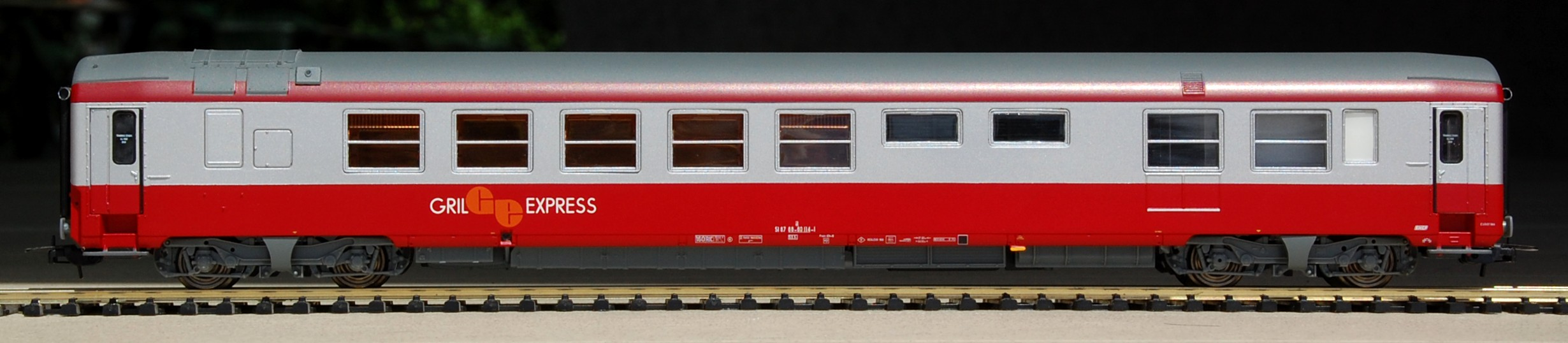 Grill Express self service dining car, SNCF, France. Scale model by LS Models.